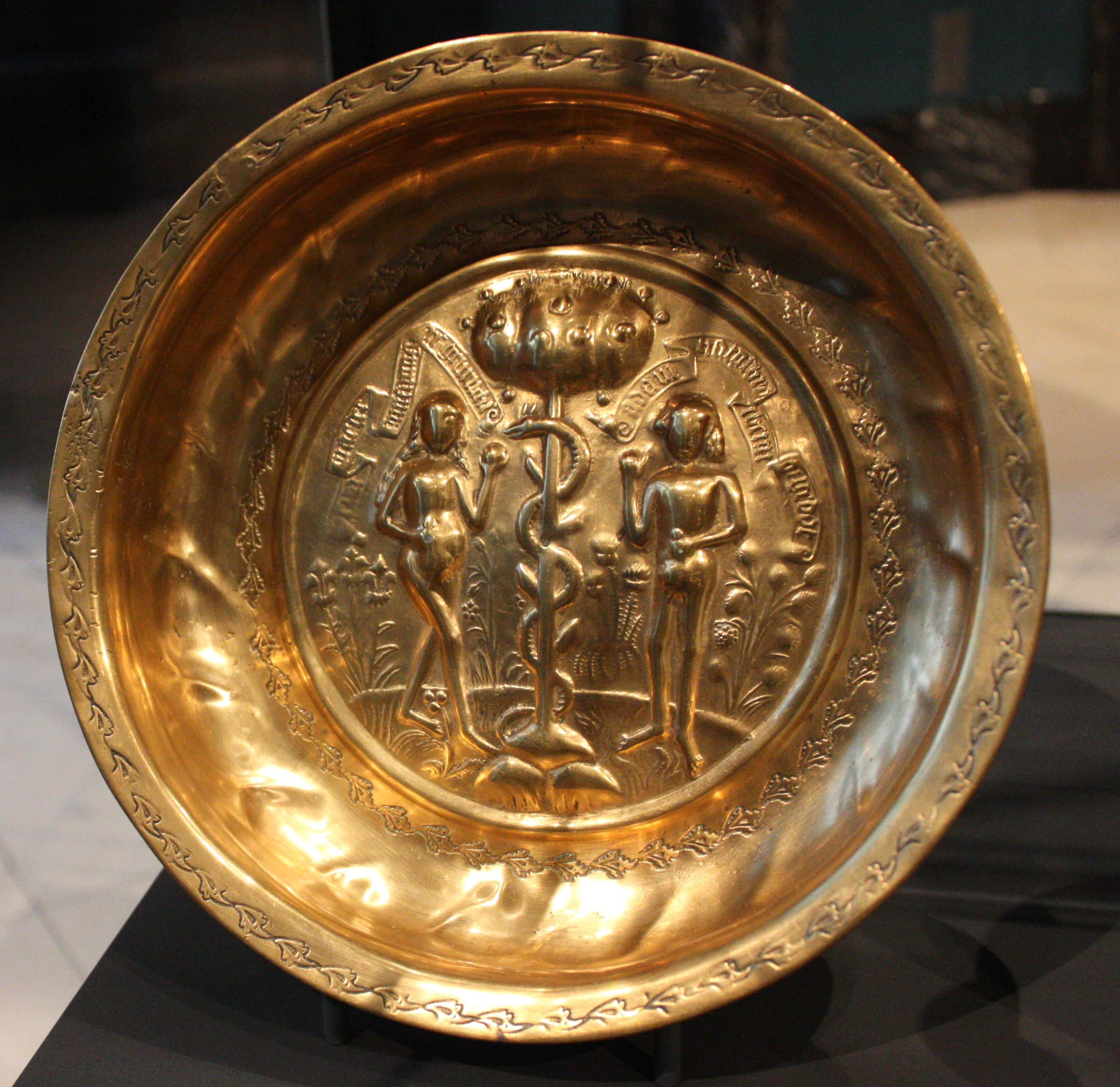 Dish 1500-1550 Repousse and chased brass With Adam and Eve Germany possibly Nuremburg Both the central design and the decoration upon the rim of this dish were made using a series of stamps impressed into the metal. Nuremberg trade regulations stated that all punches and stamps had to be applied by hand. The scene depicts the Fall of Man, when Adam and Eve were tempted by the serpent to pick an apple from the Tree of Knowledge. Scenes like this one were popular on brass dishes of the 16th century as they added a decorative element to objects for household use. This dish was probably used to wash hands, yet contemporary paintings show that dishes were also displayed upon dressers when not in use. Collection ID: 454-1907 This photo was taken as part of Britain Loves Wikipedia in February 2010 by Valerie McGlinchey.